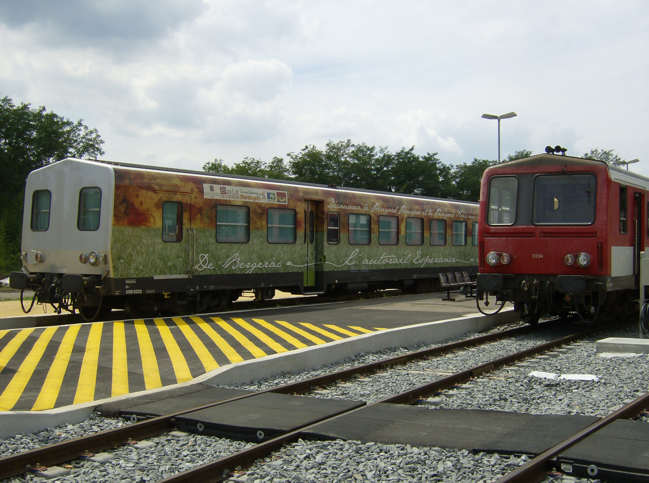 X 2200 at Sarlat Station.